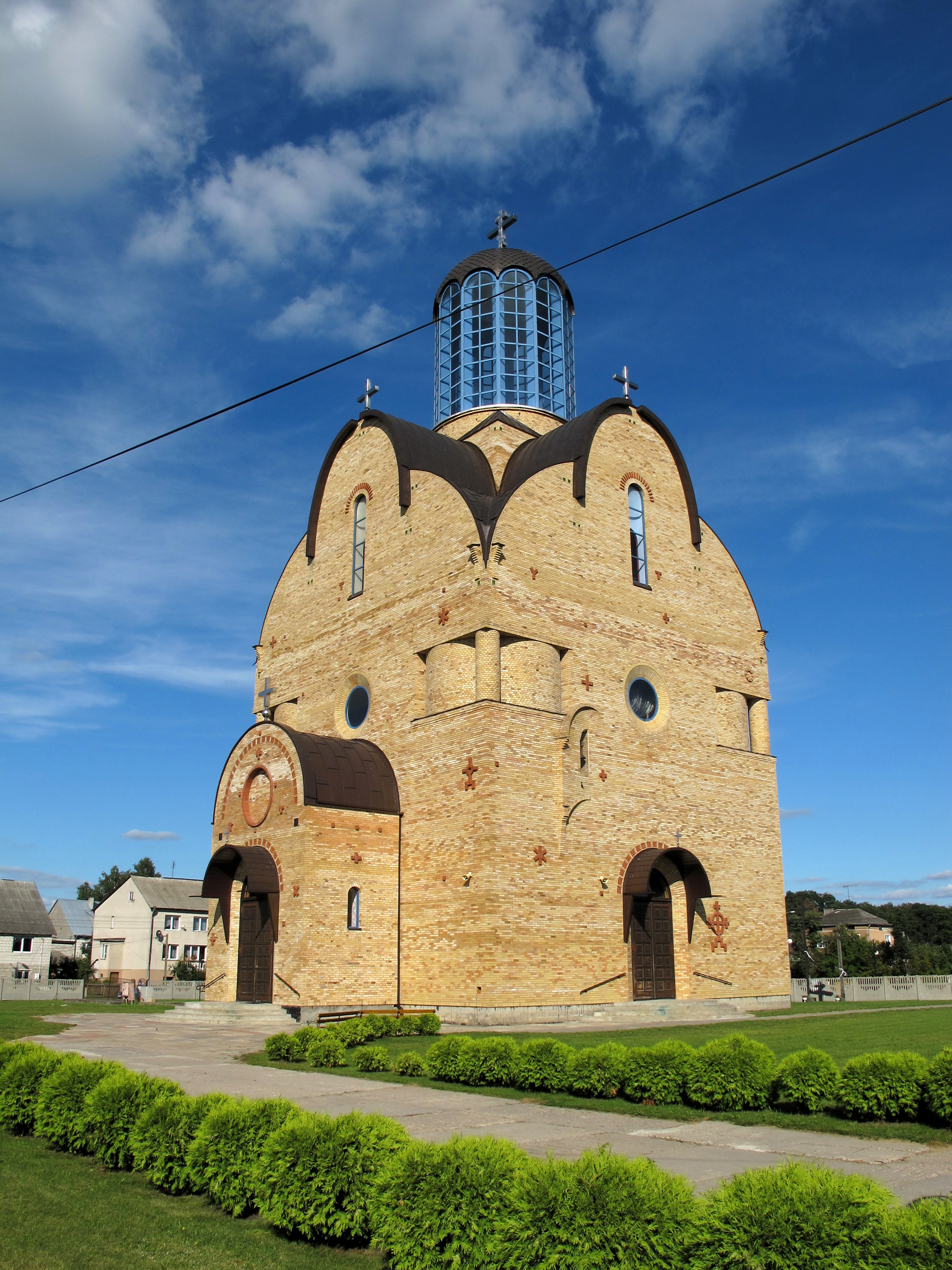 Pokrov of BVM orthodox church by Reymonta 6 street in Bielsk Podlaski